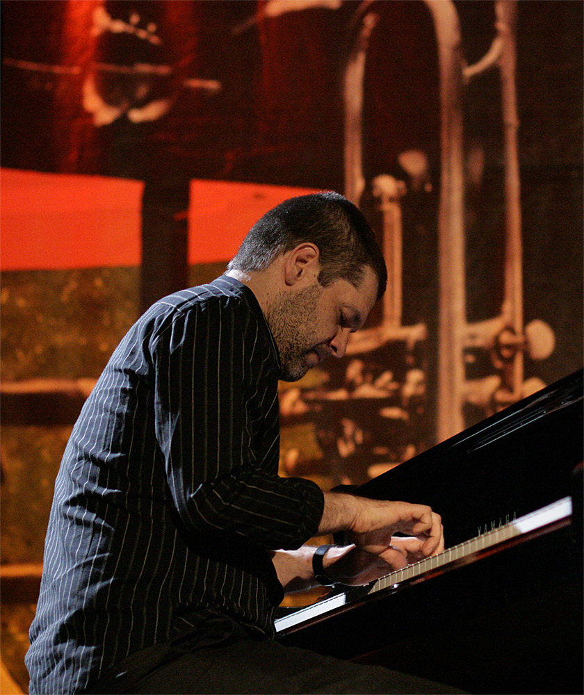 Lucian Ban at Jazzy Spring 2007 Hierogliphycs with special guest Barry Altschul and Mark Feldman